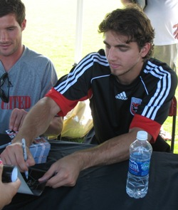 Dejan Jakovic signs autographs at the Maryland Soccerplex